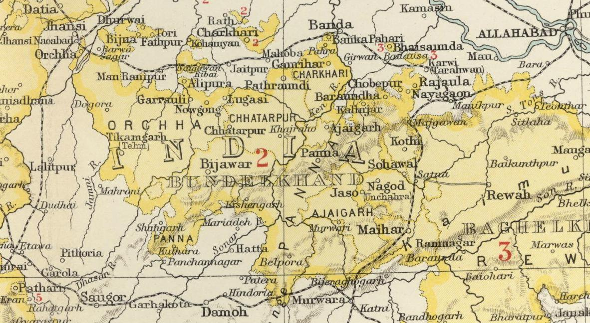 1909 Imperial Gazetteer of India Central India map section